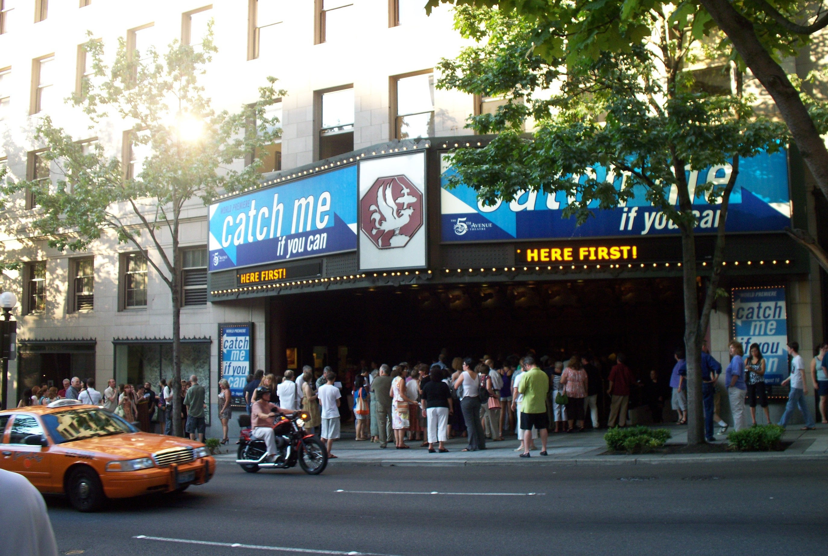 Picture taken across the street of the 5th Avenue Theatre, before the premiere of the musical, "Catch Me If You Can" in Seattle, Washington.